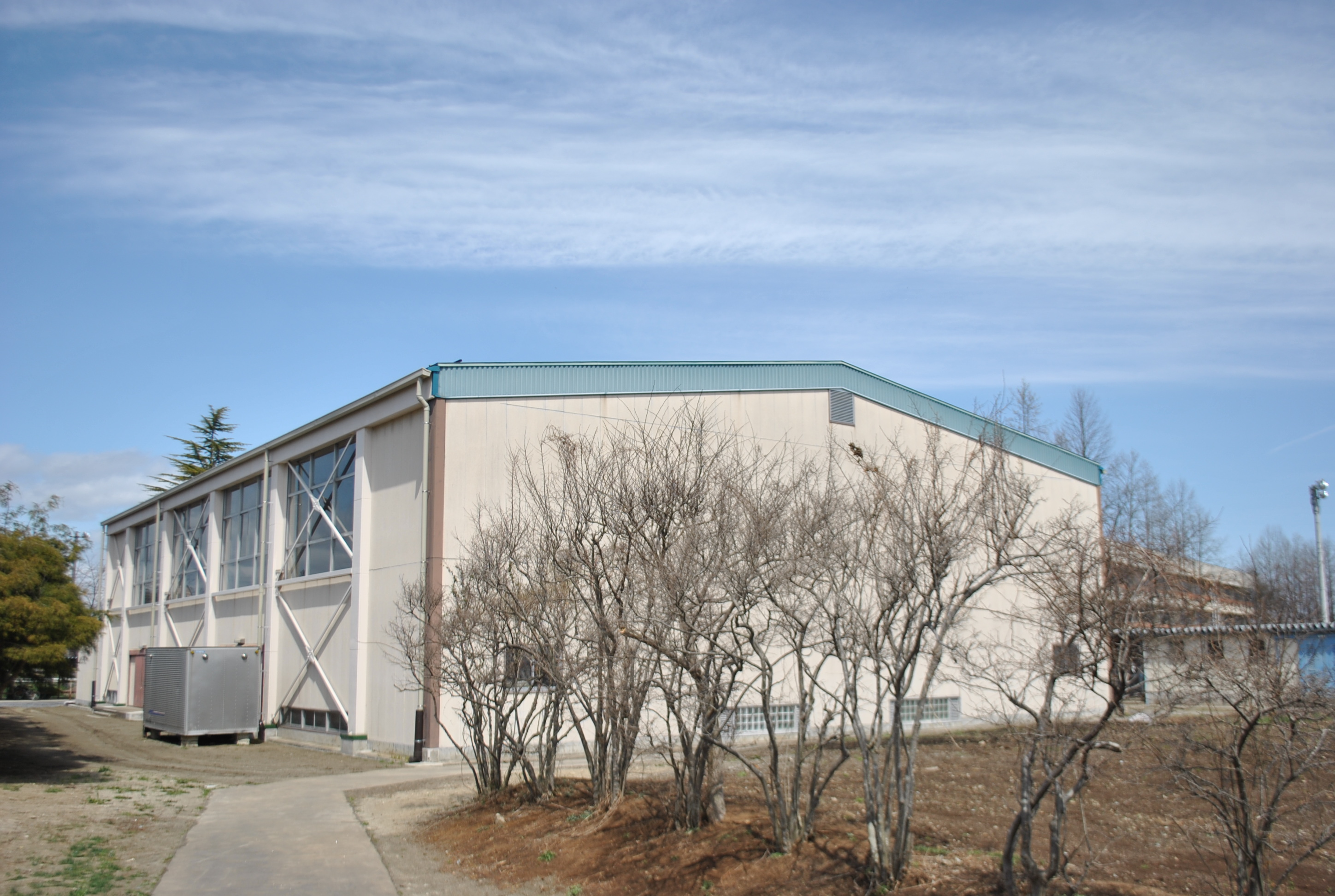 Zengo Elementary School in Yabuki Town, Fukushima Pref., Japan.